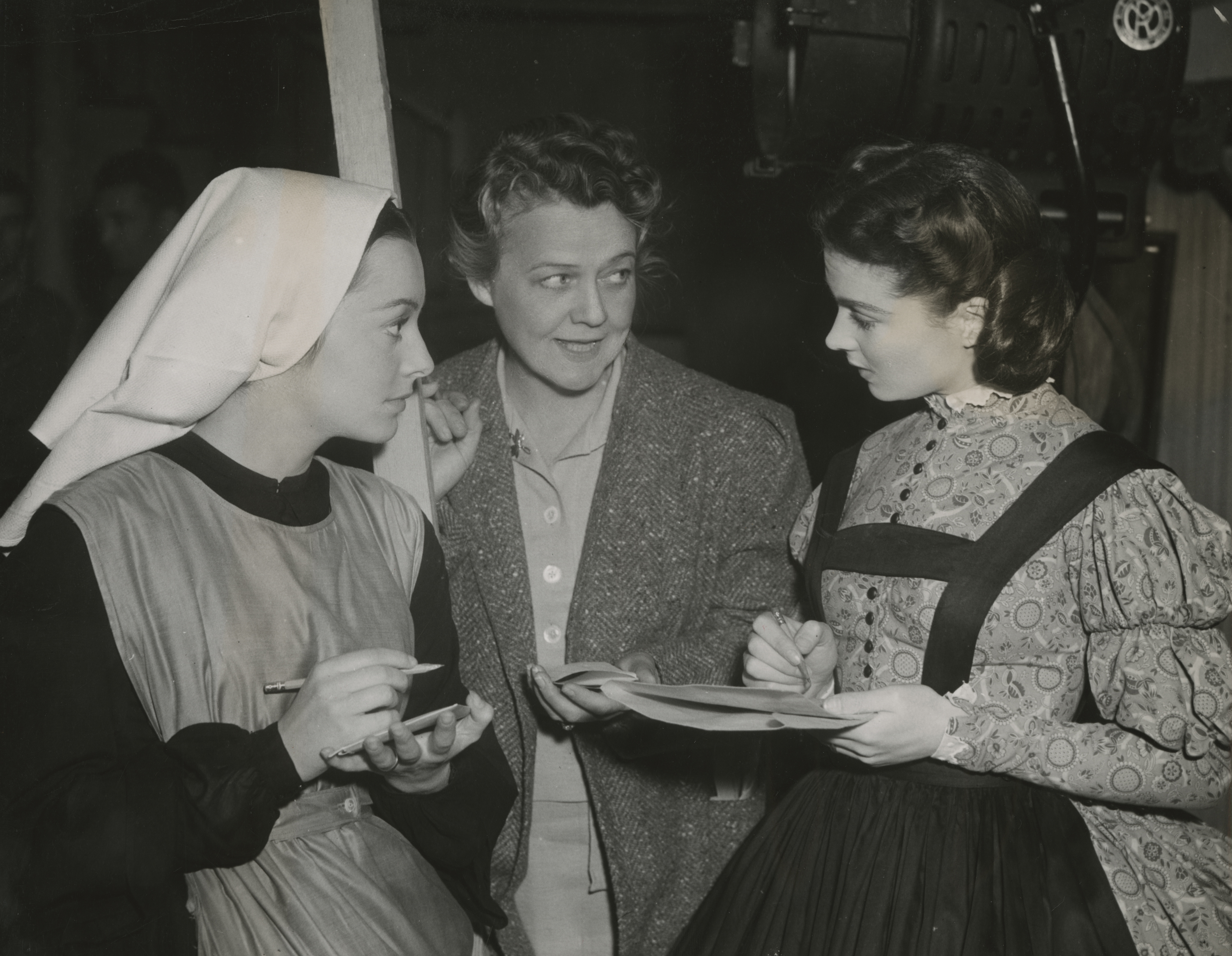 Susan Myrick, center, giving Southern dialect advice to Olivia de Havilland and Vivien Leigh on the set of Gone With the Wind, 1939